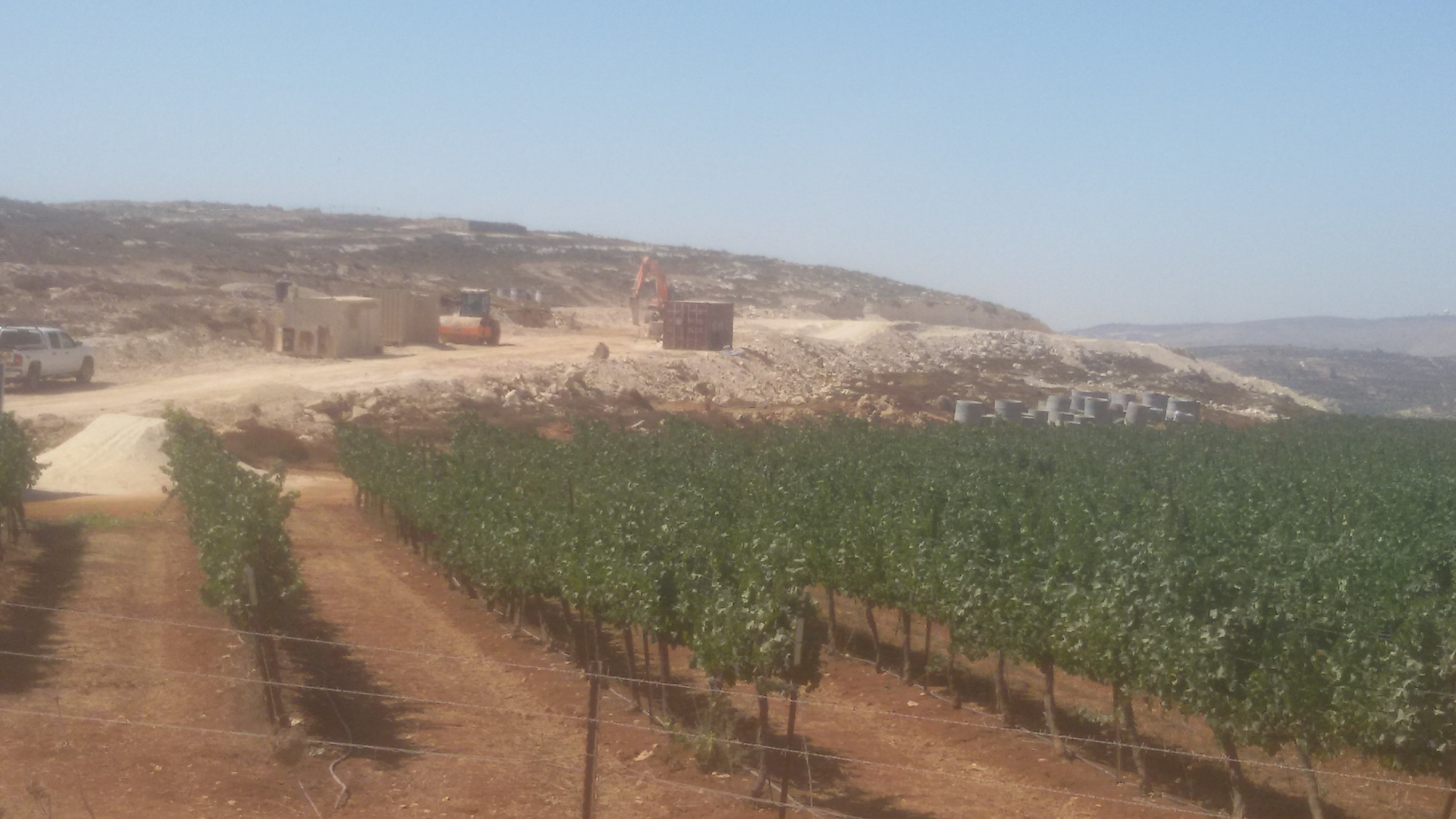 Construction site of the settlement Amichai